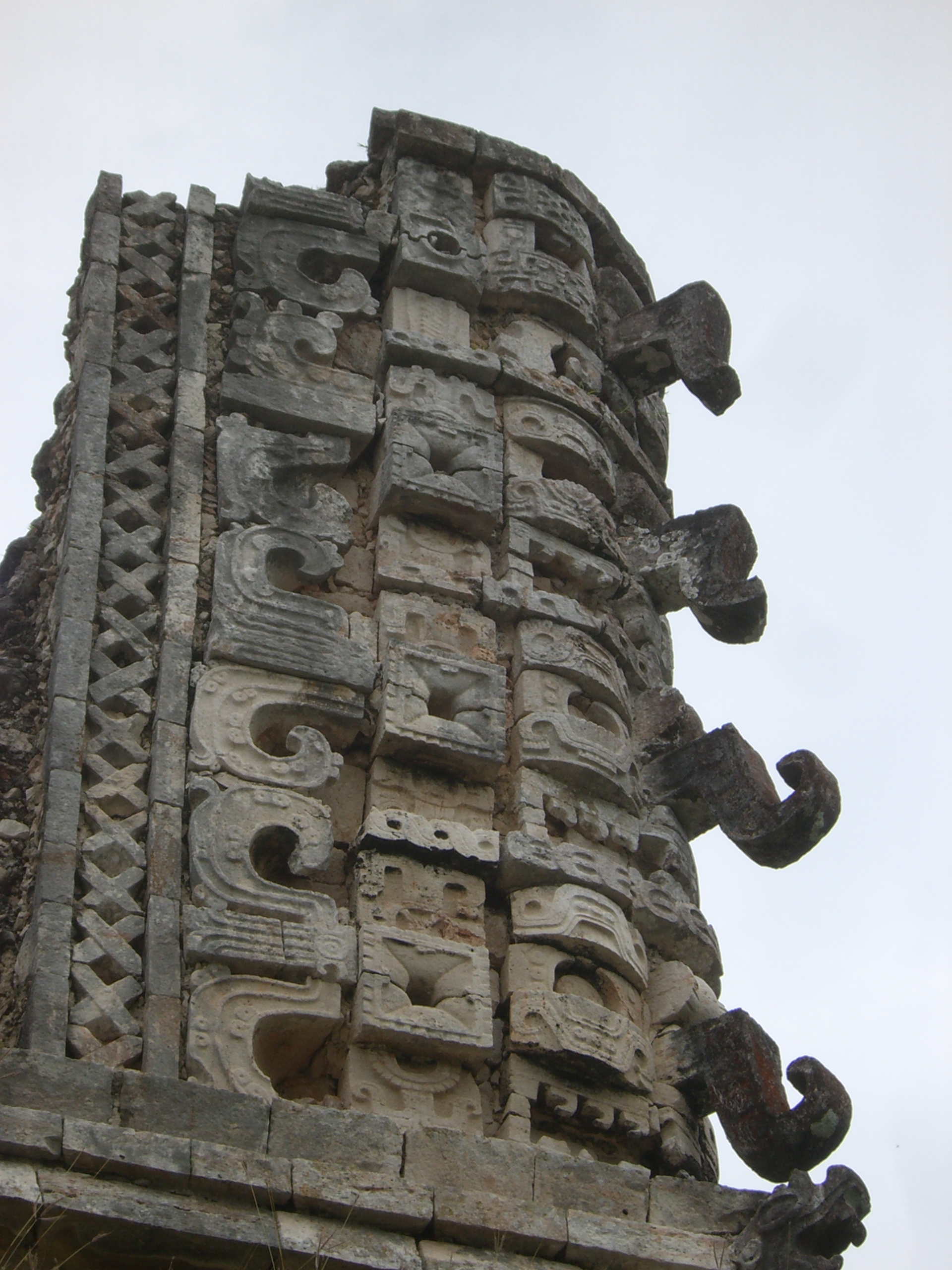 Palace of the Governor in Uxmal